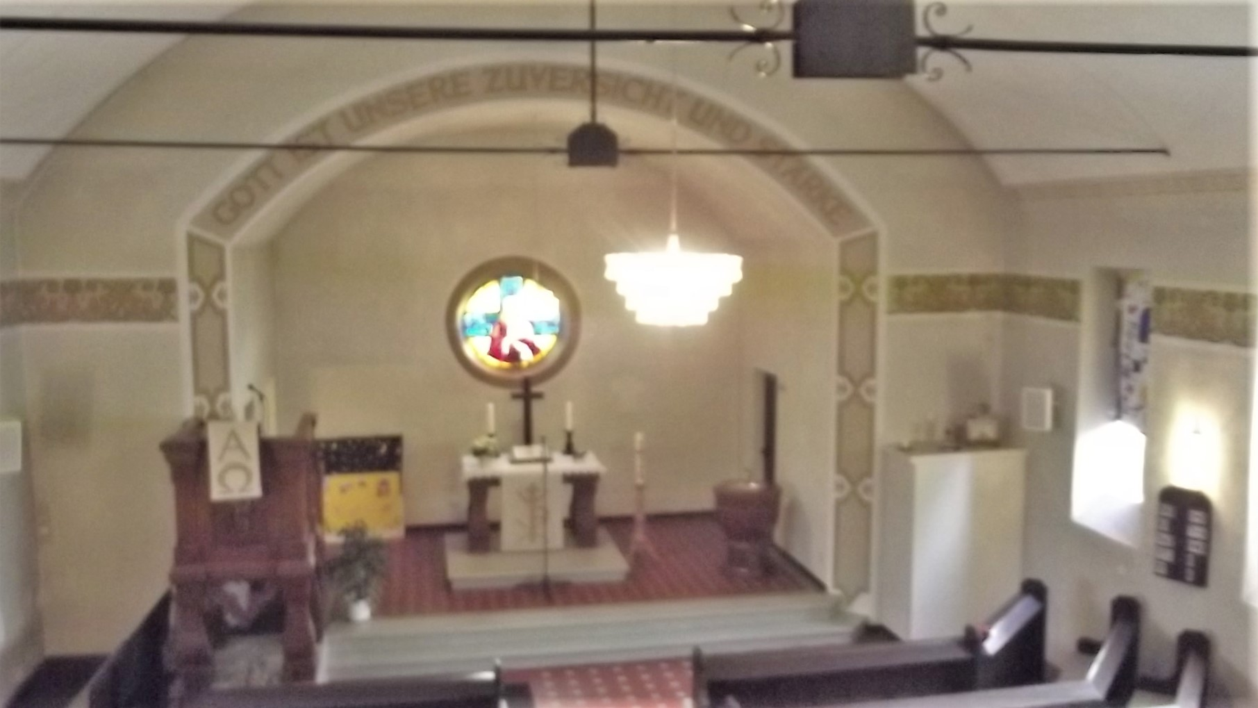 Evangelische Kirche (Bosen)